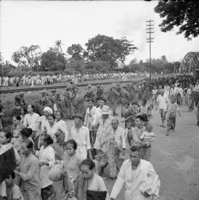 The British Occupation of Java Chinese civilians are evacuated from the village of Bekassi before it is burnt as a reprisal for the murder of five members of the Royal Air Force and twenty Maharatta riflemen whose Dakota transport aircraft crash landed near the village. The Indonesian residents had already fled when word reached them of the arrival of British and Indian forces.